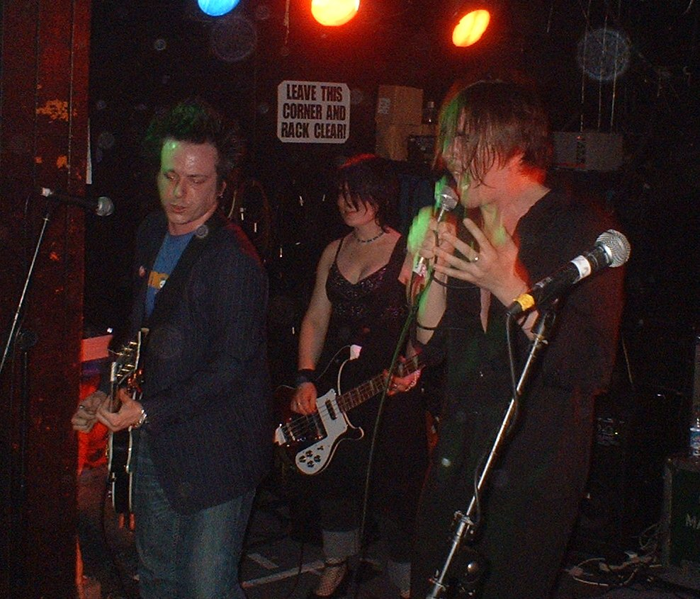 Picture of Art Brut performing at the Charlotte in Leicester in May 2005.